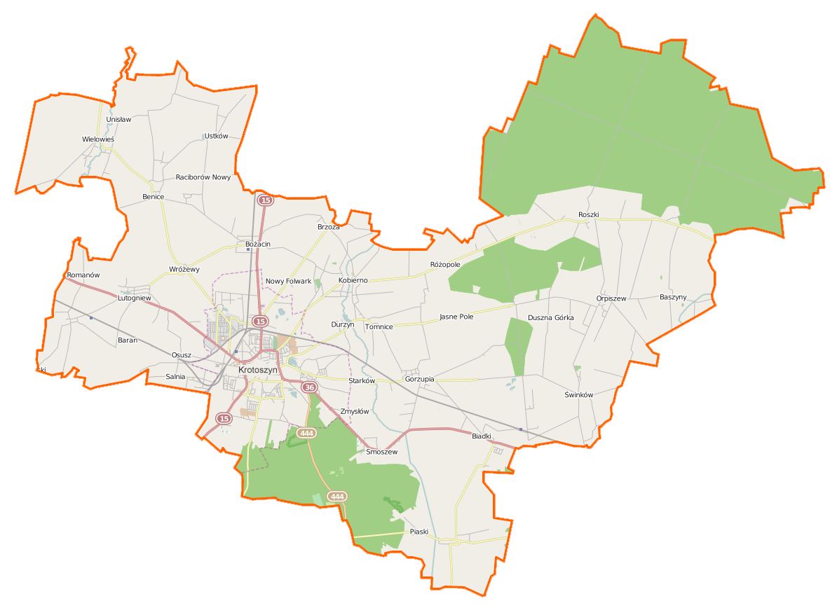 Map of Gmina Krotoszyn, Poland This map of Krotoszyn (gmina) was created from OpenStreetMap project data, collected by the community. This map may be incomplete, and may contain errors. Don't rely solely on it for navigation. Border coordinates51.807617.3110←↕→17.720751.6231